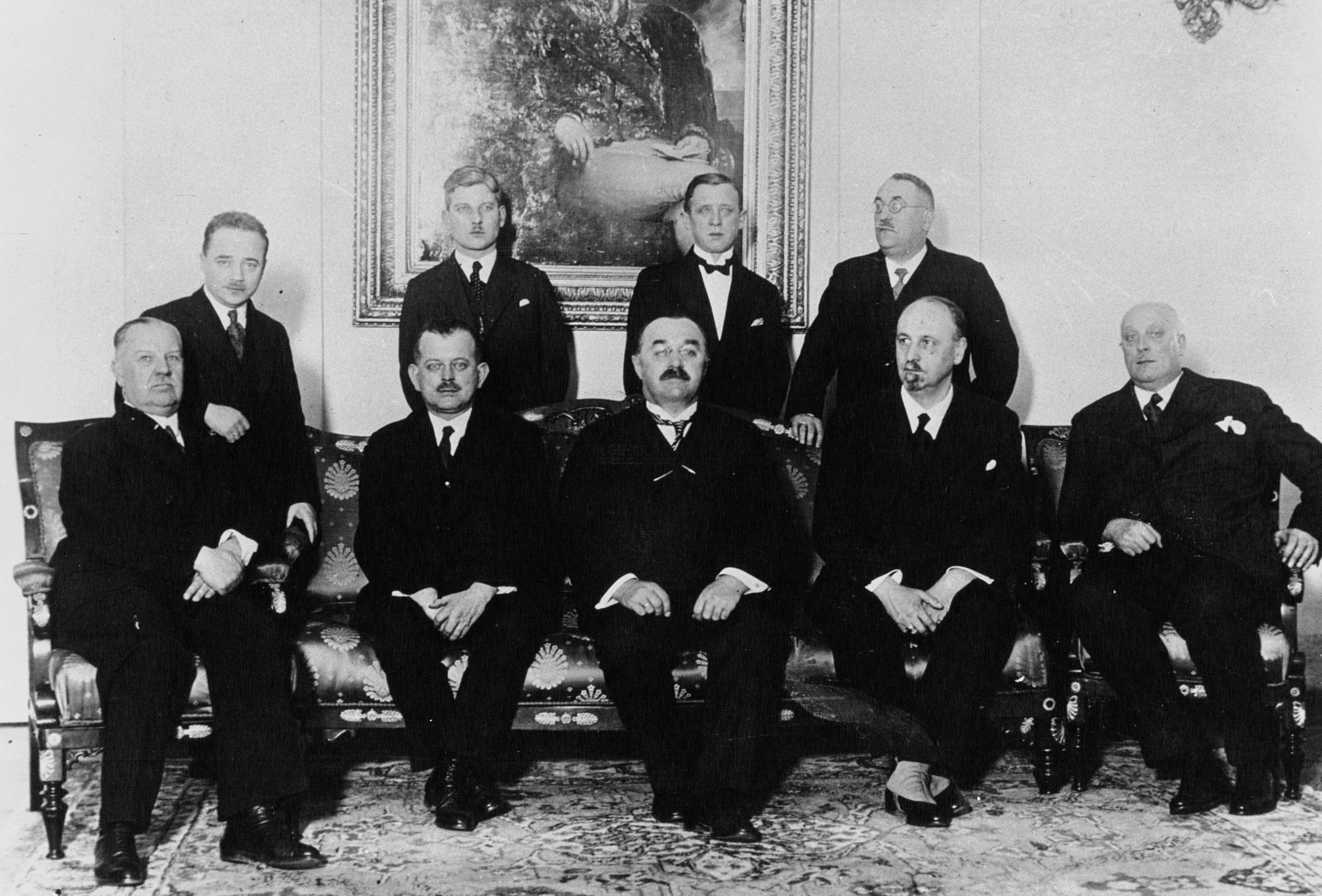 The new Austrian government of Karl Buresch (1932). From left to right side, first row: Vaugoin, Winkler, Buresch, Weidenhoffer, and Federal President Miklas; second row: Dollfuß, Schuschnigg, Czermak, Resch.